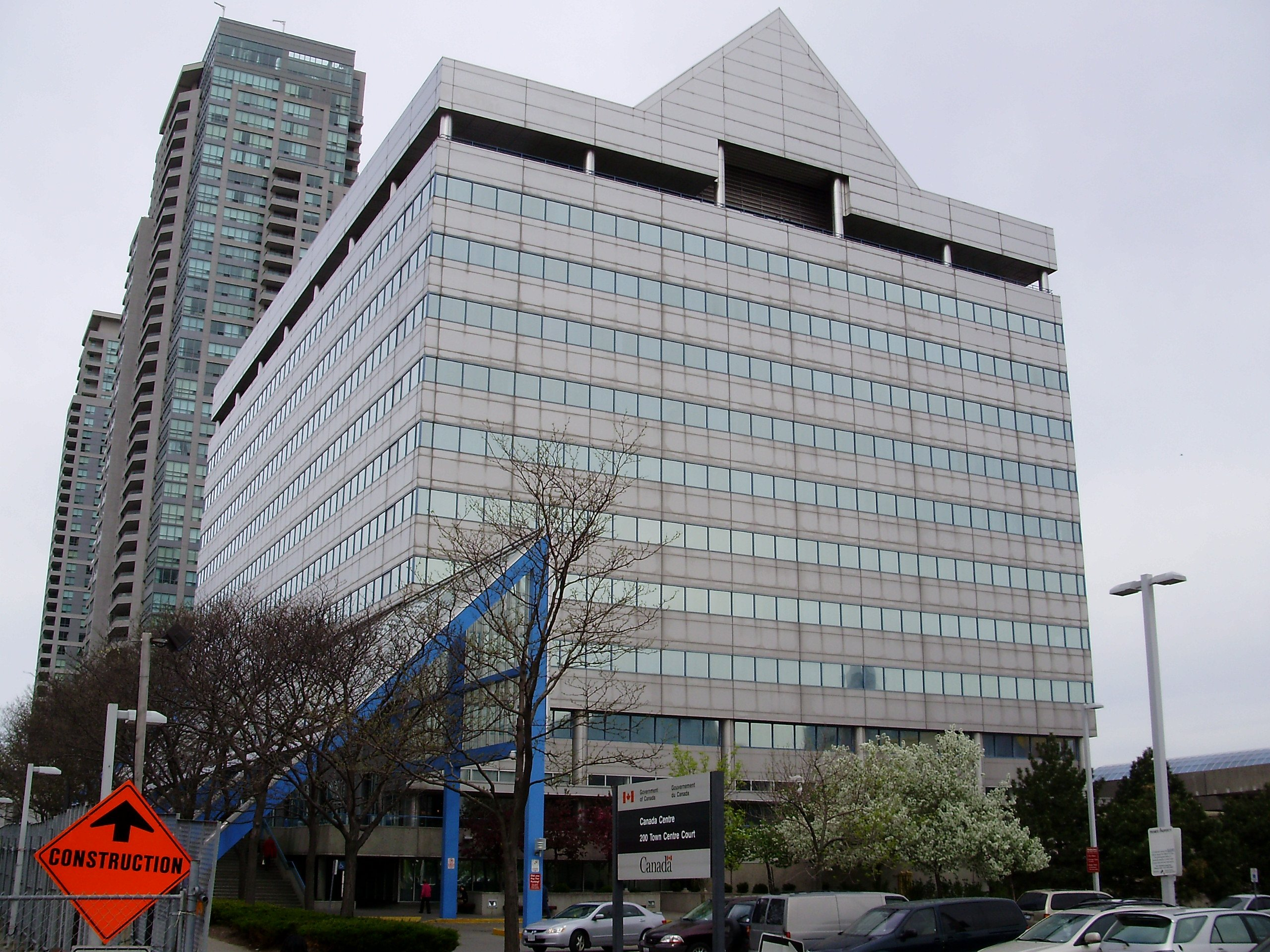 The Canada Centre complex, housing offices of multiple government agencies, at 200 Town Centre Court in Scarborough, Ontario, Canada.